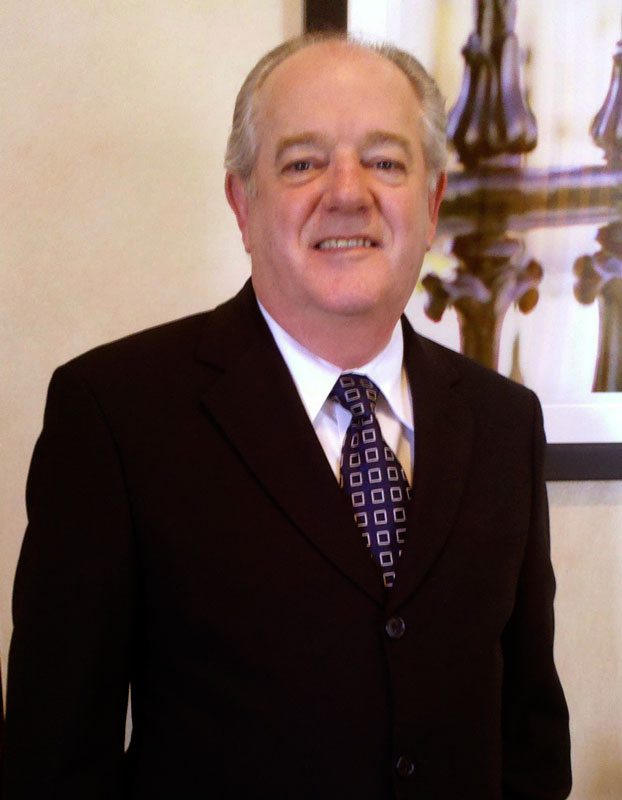 United States Senate candidate William G. Barnes.